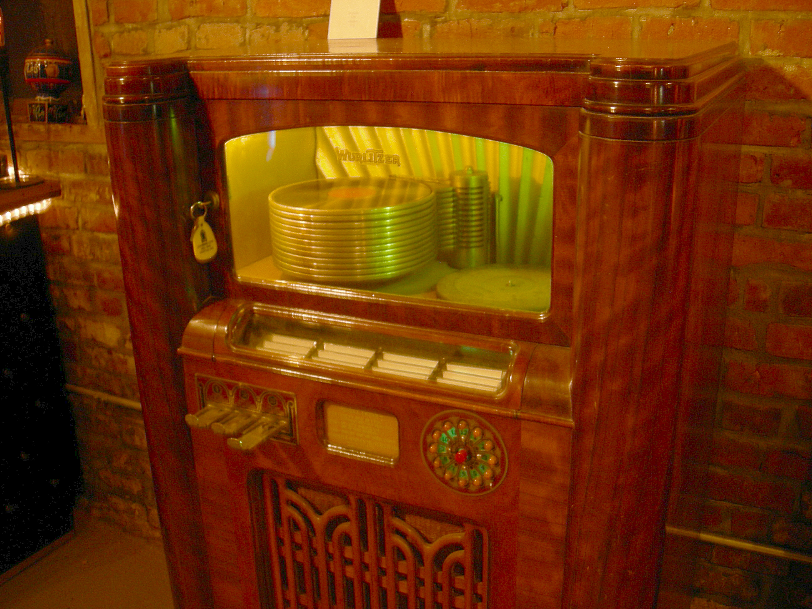 A mid-20th-century 12-disc Wurlitzer jukebox. Photographed at "The Stables" behind Full Throttle Bottles, Georgetown, Seattle, Washington.